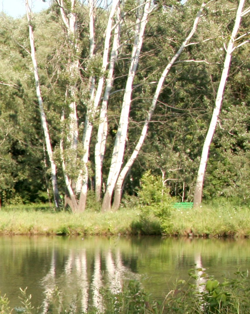 Botanical garden, Chisinau